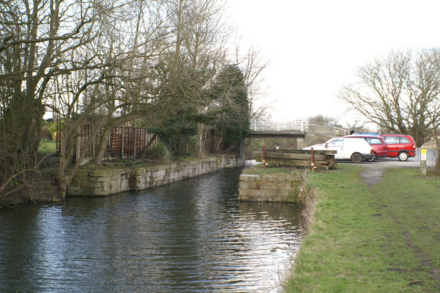 Sollom Lock. Originally actually a lock on the Douglas Navigation, but incorporated into the line of the Rufford Branch of the Leeds & Liverpool Canal in 1782... but no longer required as a lock. Stop planks, in case of a breach in the canal, are ready on the bank.